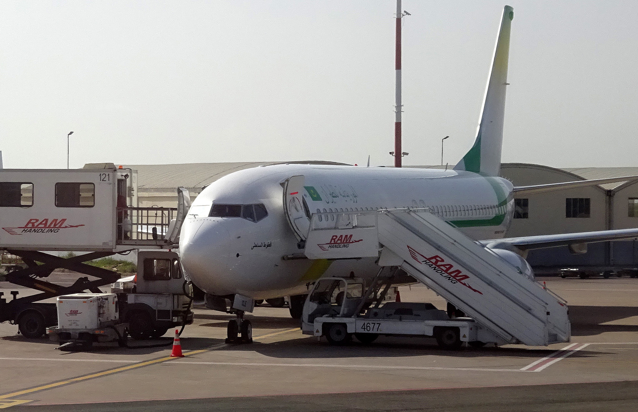 MSN 61353 LN 6144 B737-88V / 737 / 737-800 MAURITANIA AIRLINES INTERNATIONAL CMN AIRPORT